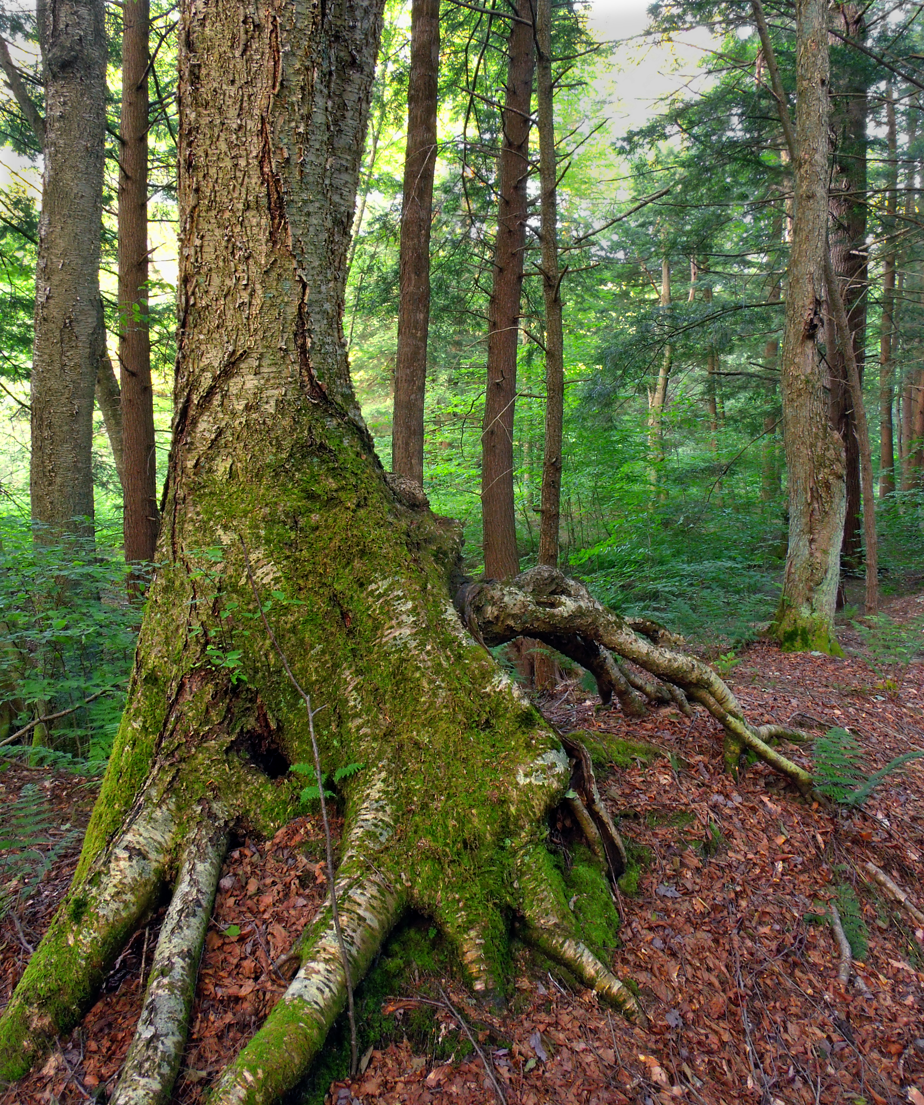 Betula alleghaniensis — Yellow birch, old-growth fallen tree. Within the Tionesta Research Natural Area of Allegheny National Forest, in Wetmore Township, McKean County, Pennsylvania. The exposed, stilted roots have grown from the stump of long-ago fallen tree. Remote and difficult to access, the research area protects an old-growth forest of hemlocks, white pines, and northern hardwoods. It and the adjacent Tionesta Scenic Area form one of the largest tracts of old-growth forest east of the Mississippi River. The forest has had its share of disturbances--deer overbrowsing, encroachment from oil and natural-gas drilling, and the destructive May 1985 tornado. The hemlock woolly adelgid has not yet been detected here; however, beech bark disease has killed many trees. "Despite the disturbances, the forest is magnificent. It was late in the day when I visited, and I had time to explore only a small portion of the forest. Will make a return trip."